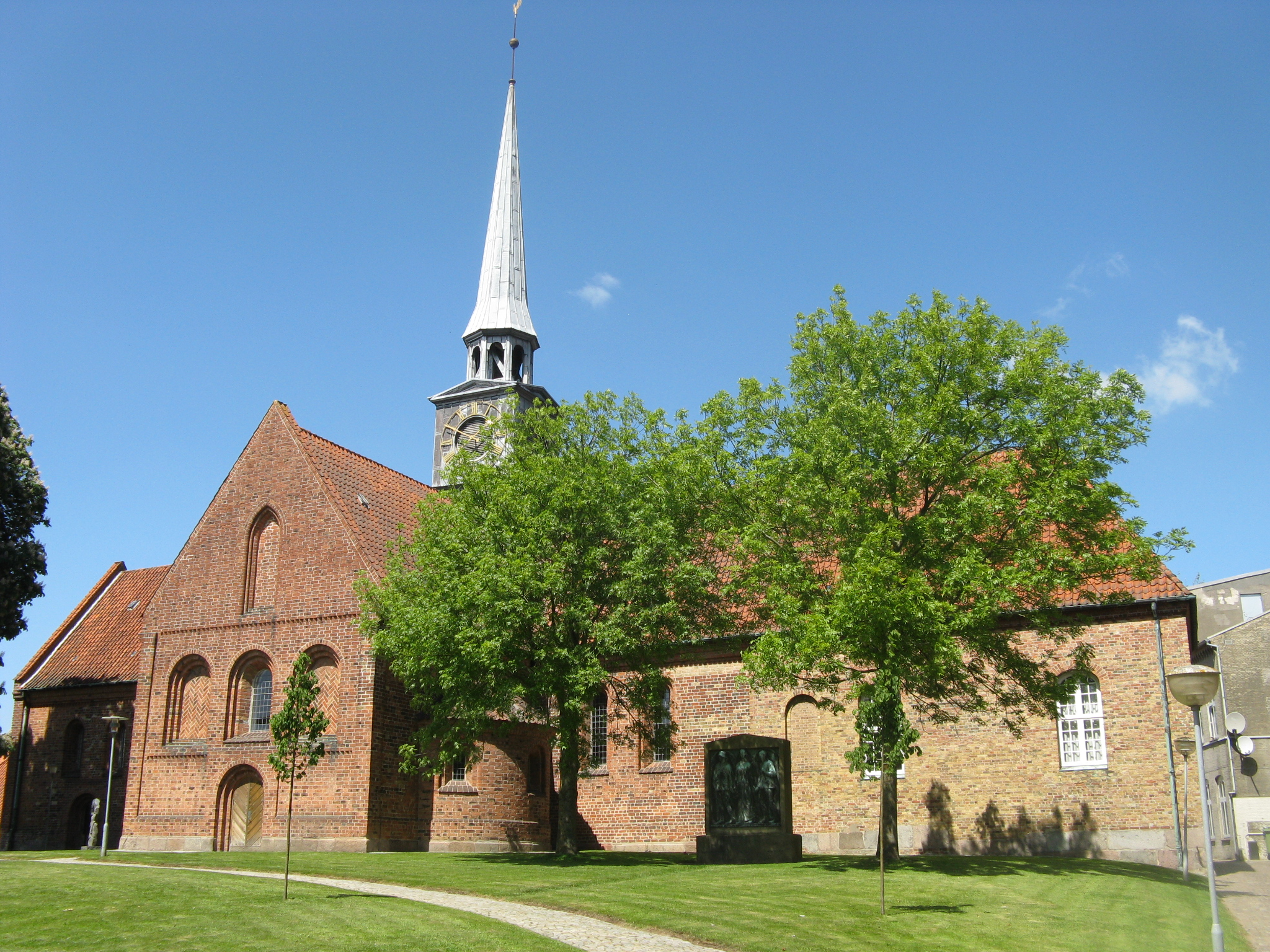 St. Nikolai Church, Aabenraa/Denmark